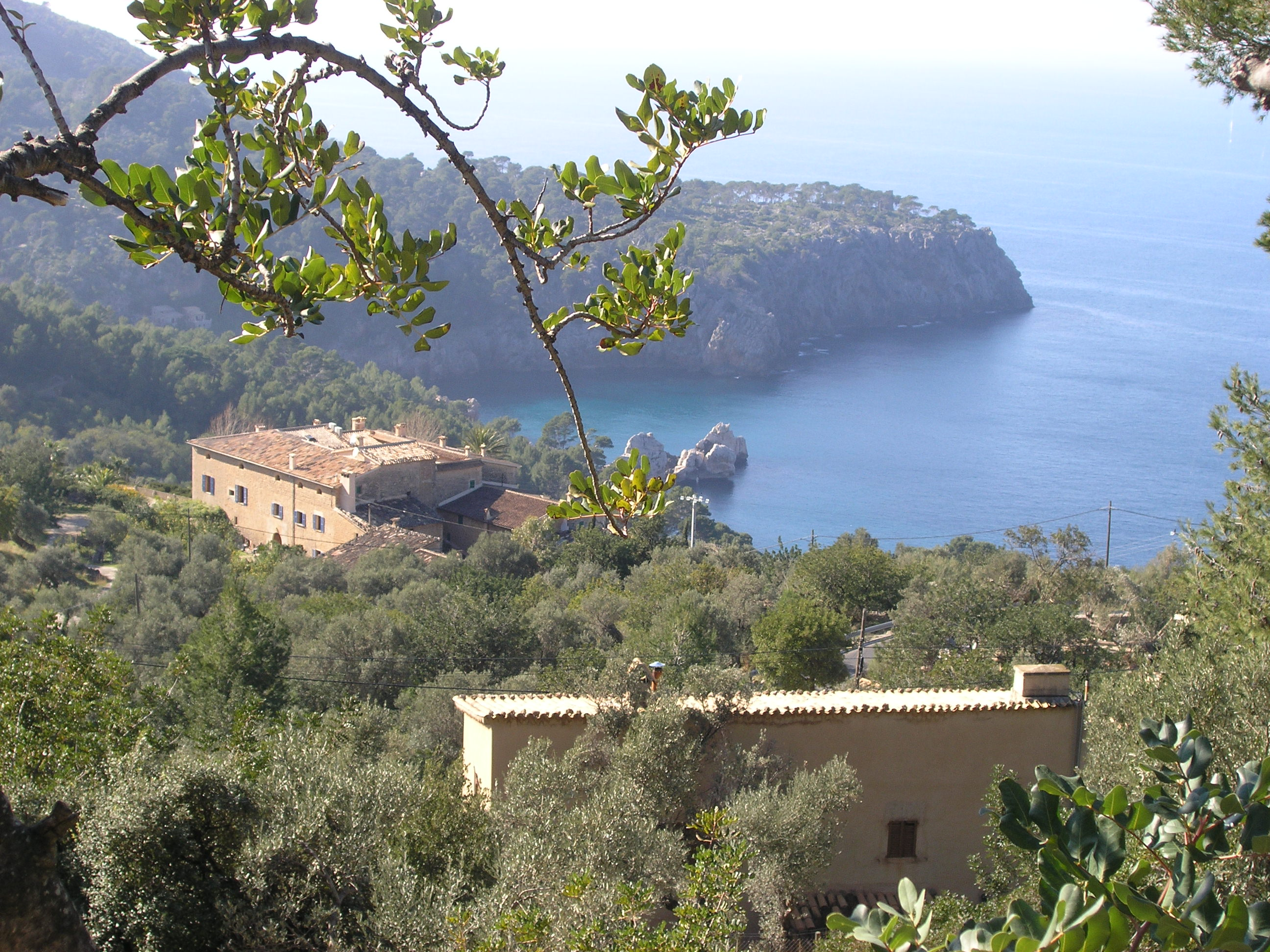 GR 221 stage 5 (Deià – Port de Sóller)